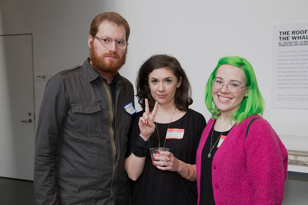 Art + Feminism co-founders Michael Mandiberg, Sian Evans, and Jackie Mabey.